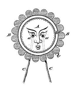 Toy buzz, a type of whirligig.